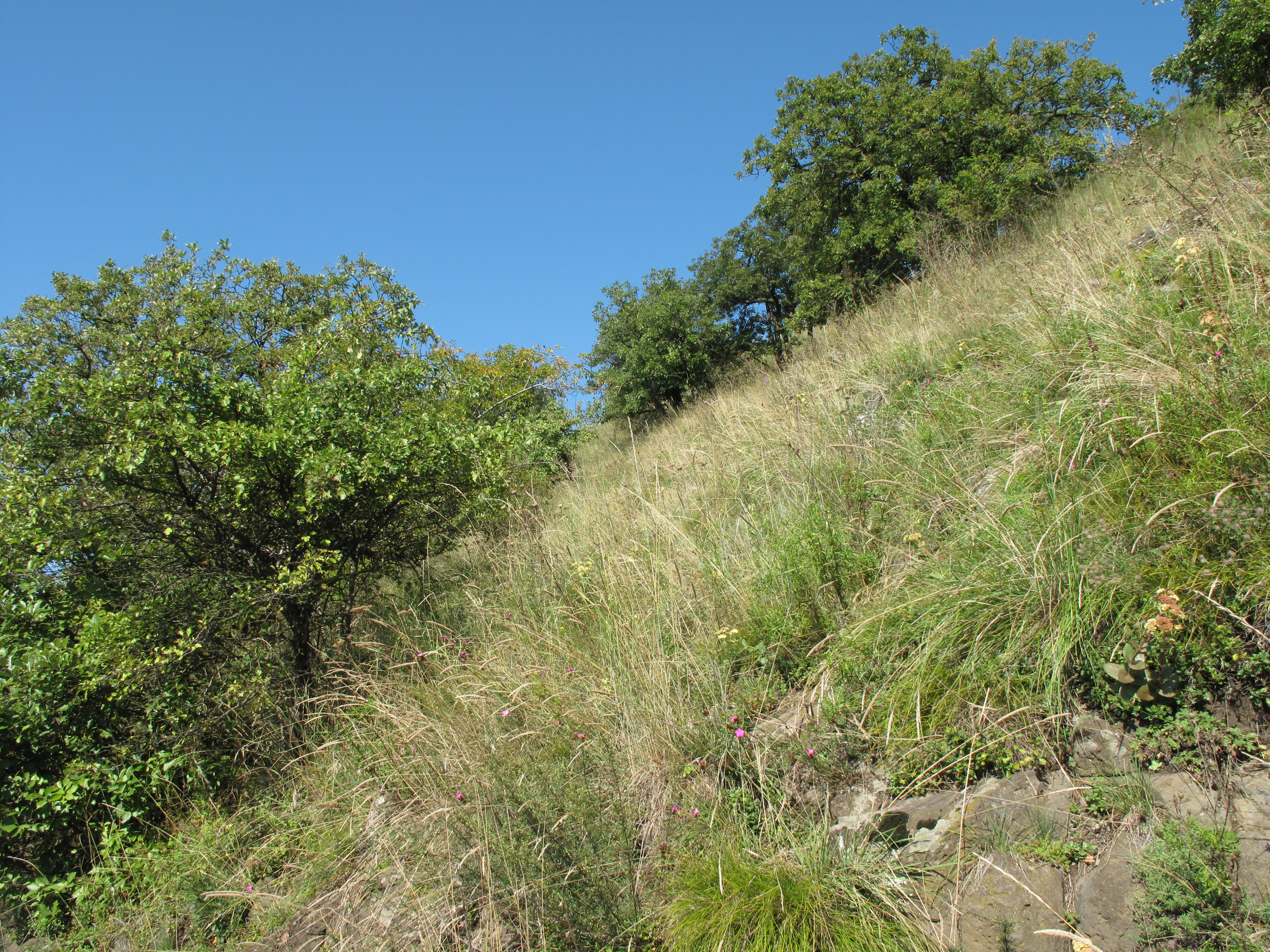 National Nature Reserve Lovoš with warm oak forest.